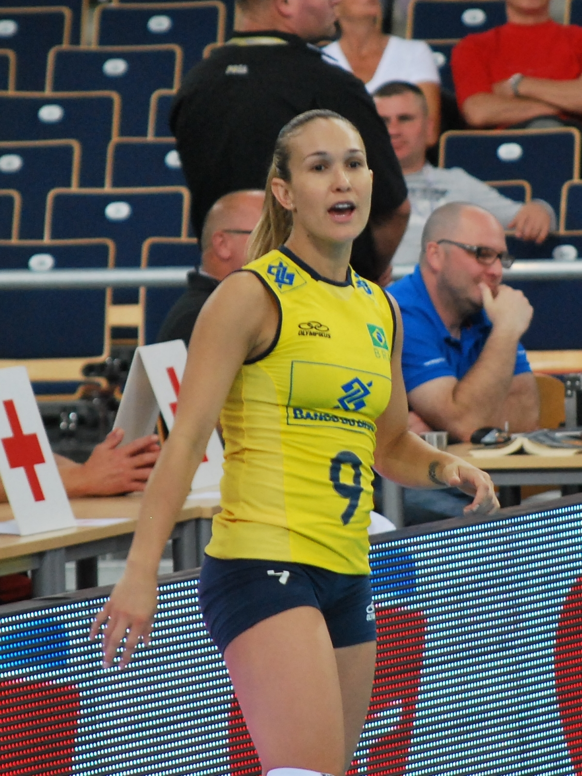 Fernanda Ferreira, volleyball player from Brazil